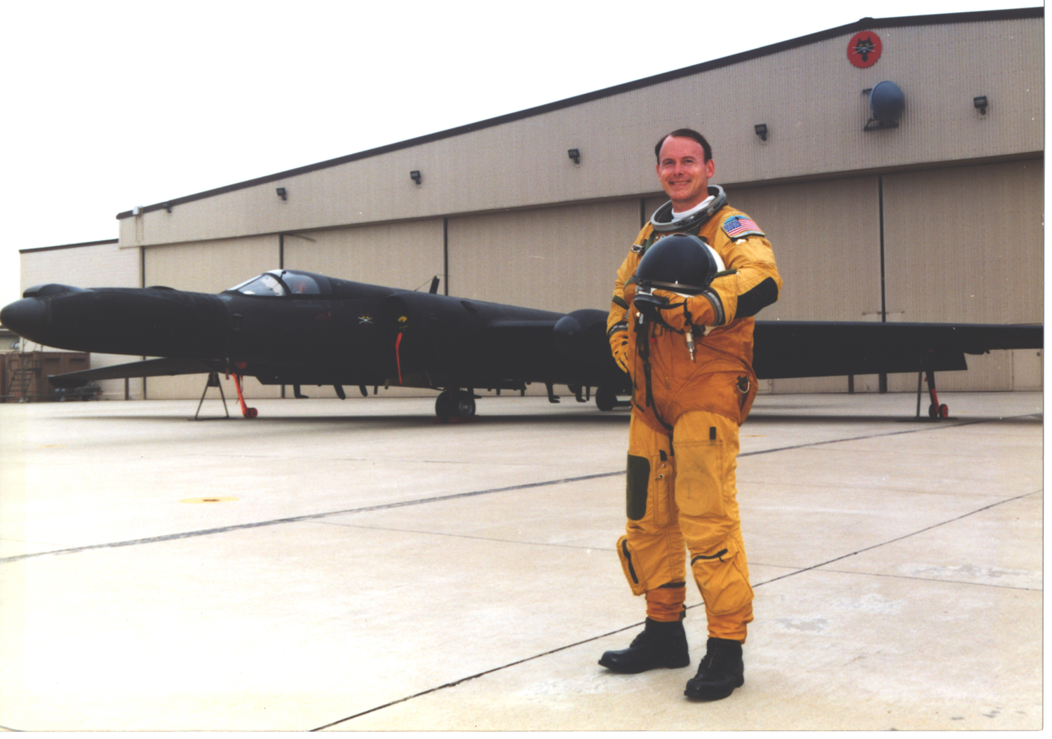 USAF Lt. Colonel Charles P. Wilson II, commander of the 5th Reconnaissance Squadron, stands in front of a Lockheed U-2 aircraft at Osan Air Base, South Korea in 1995.